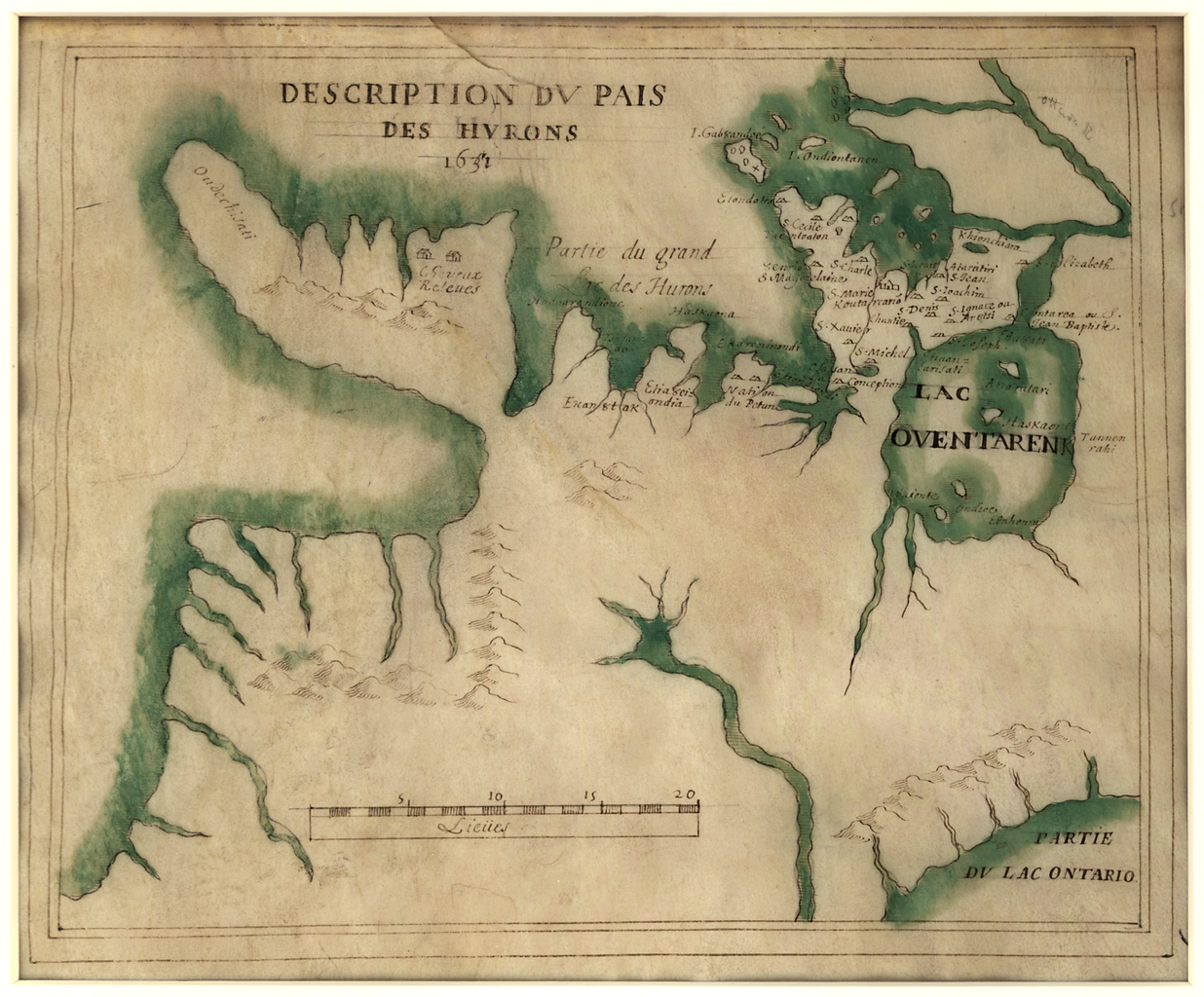 This important manuscript map on vellum depicts part of present-day Ontario, Canada, extending from Georgian Bay in the north (Partie du Grand Lac des Hurons) to Lake Ontario in the south, and from Lake Huron in the west to Lake Simcoe in the east (Lac Oventarenk). The map originally was dated 1631, but the date later was changed to 1651. Canadian scholar Conrad E. Heidenreich concluded that the main part of the map probably was drawn between 1639 and 1648, with slight revisions made after 1650, which most likely explains the change from 1631 to 1651. Heidenreich also surmised that the map, which is unsigned, was drawn by Saint Jean de Brébeuf (1593–1649). The map evidently was made to illustrate the location of Indian tribes and Jesuit missions, particularly in the area between Lake Simcoe and Georgian Bay. Brébeuf was born in Normandy, France, and joined the Jesuit order in 1617. In 1626 he established the first mission among the Huron Indians. He was captured by the Iroquois, enemies of the Hurons, then tortured and burned to death on March 16, 1649. He was canonized in 1930. Georgian Bay (Ontario : Bay); Great Lakes Region (North America); Huron, Lake (Michigan and Ontario); Jesuits; Ontario, Lake (New York and Ontario); Simcoe, Lake (Ontario); Wyandot Indians